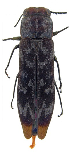 Agrilus laurenconi Descarpentries & Villiers 1963, holotype.